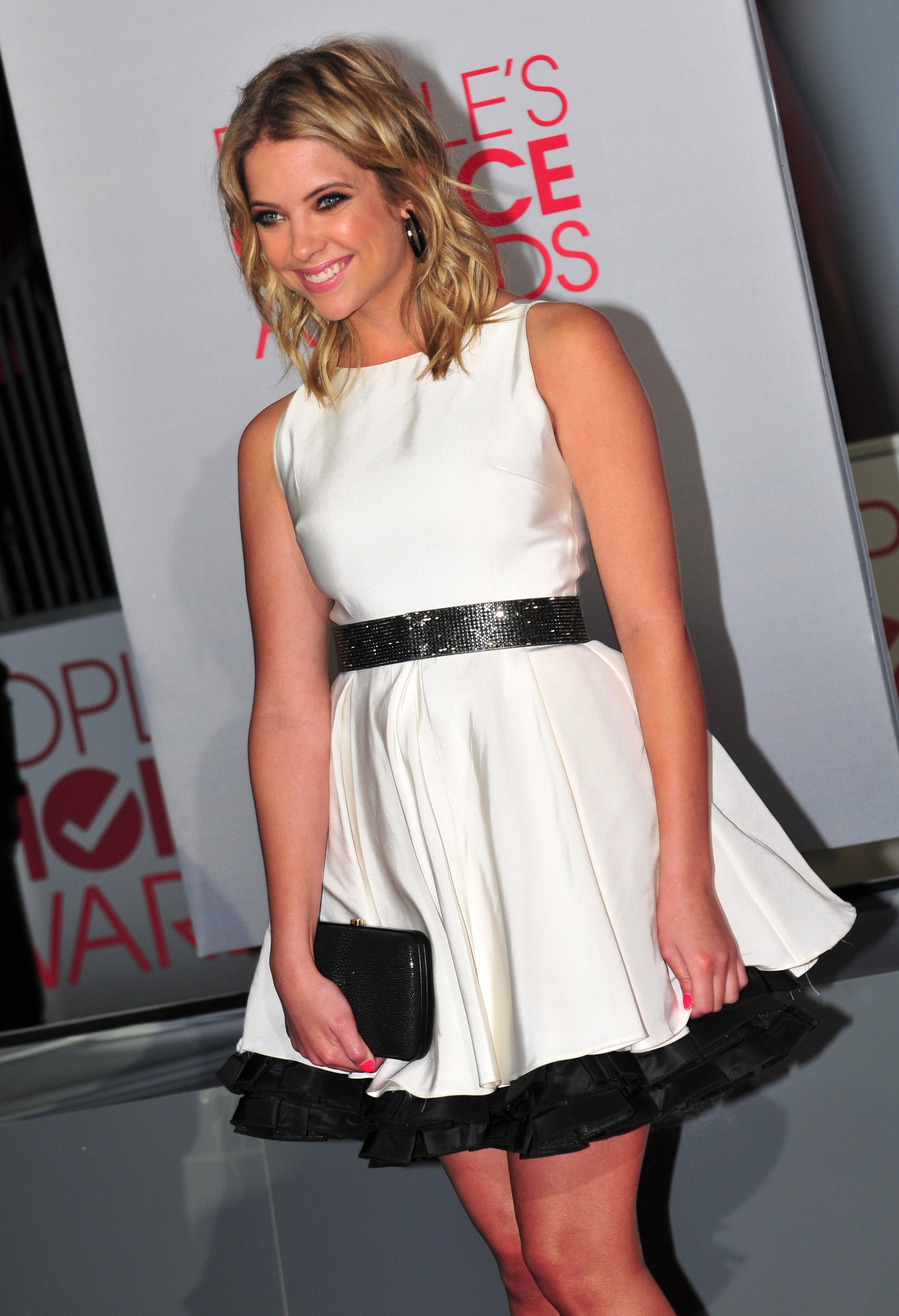 Ashley Benson on the red carpet at the 38th People's Choice Awards on January 11, 2012, at the Nokia Theatre in Los Angeles, California. (JJ Duncan/ )